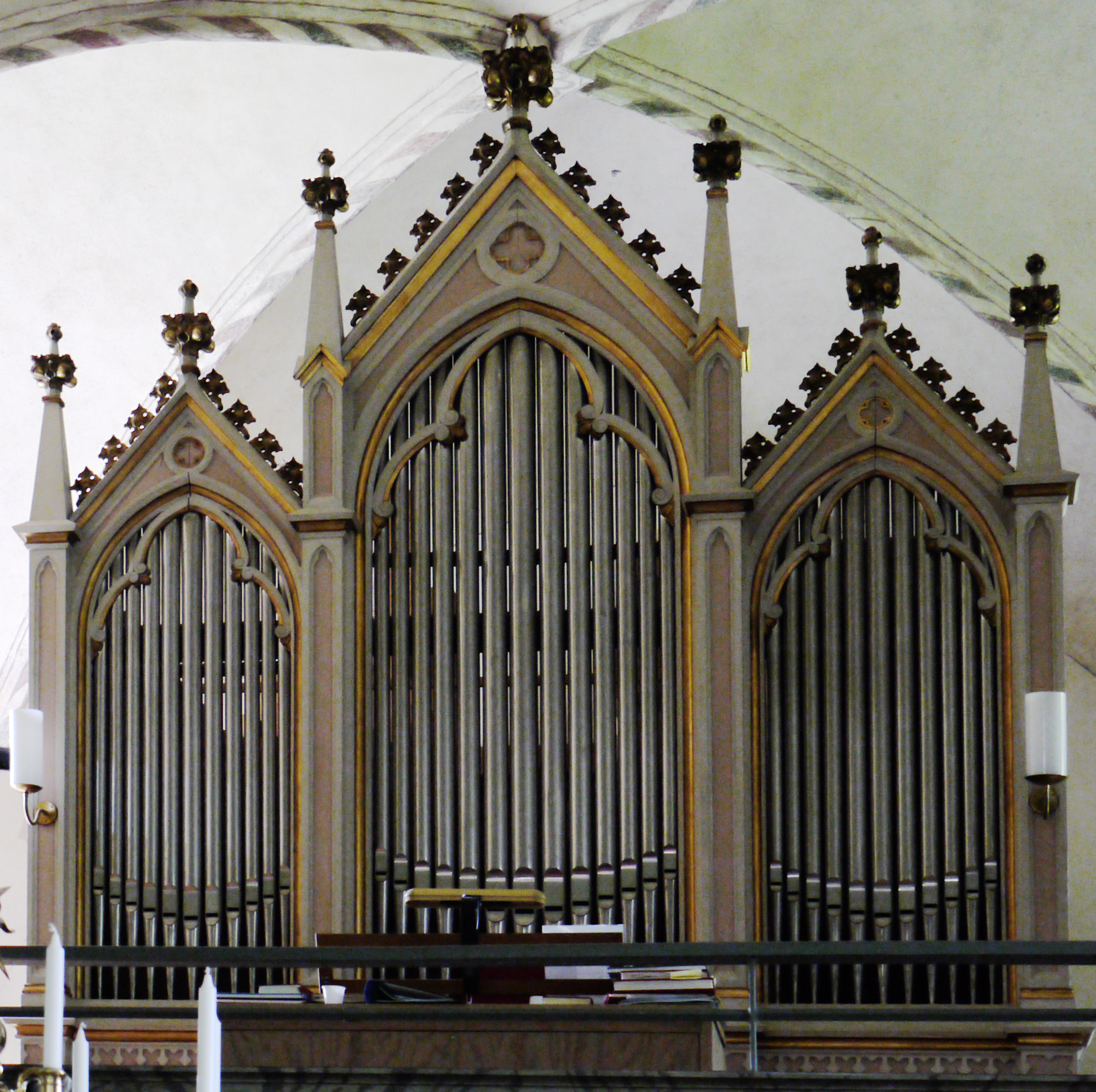 Askeby church, Diocese of Linköping, Sweden. Church organ.